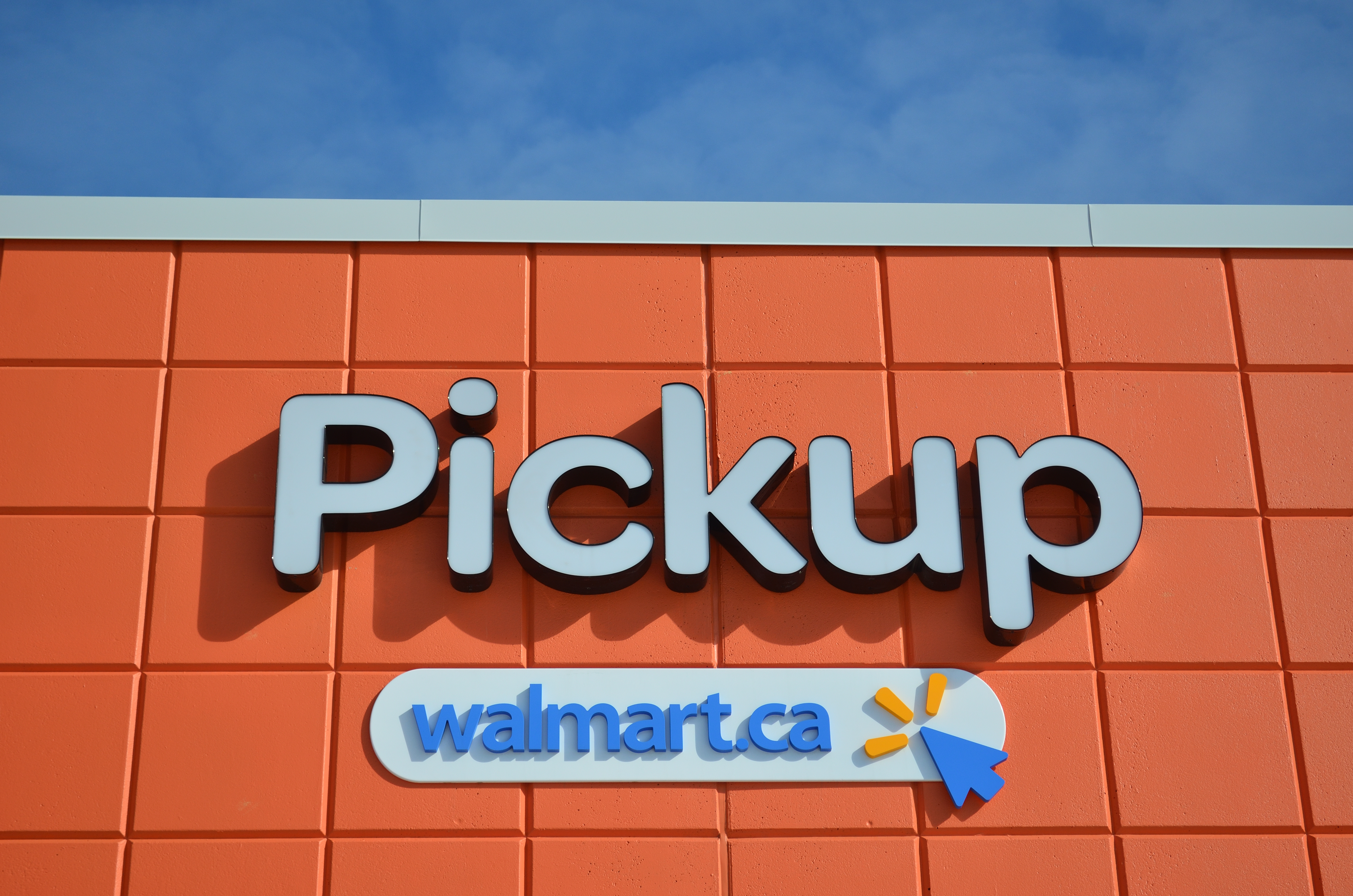 Walmart Pickup - Address: 1070 Major Mackenzie Drive East, Bayview & Major Mackenzie, Richmond Hill, Ontario